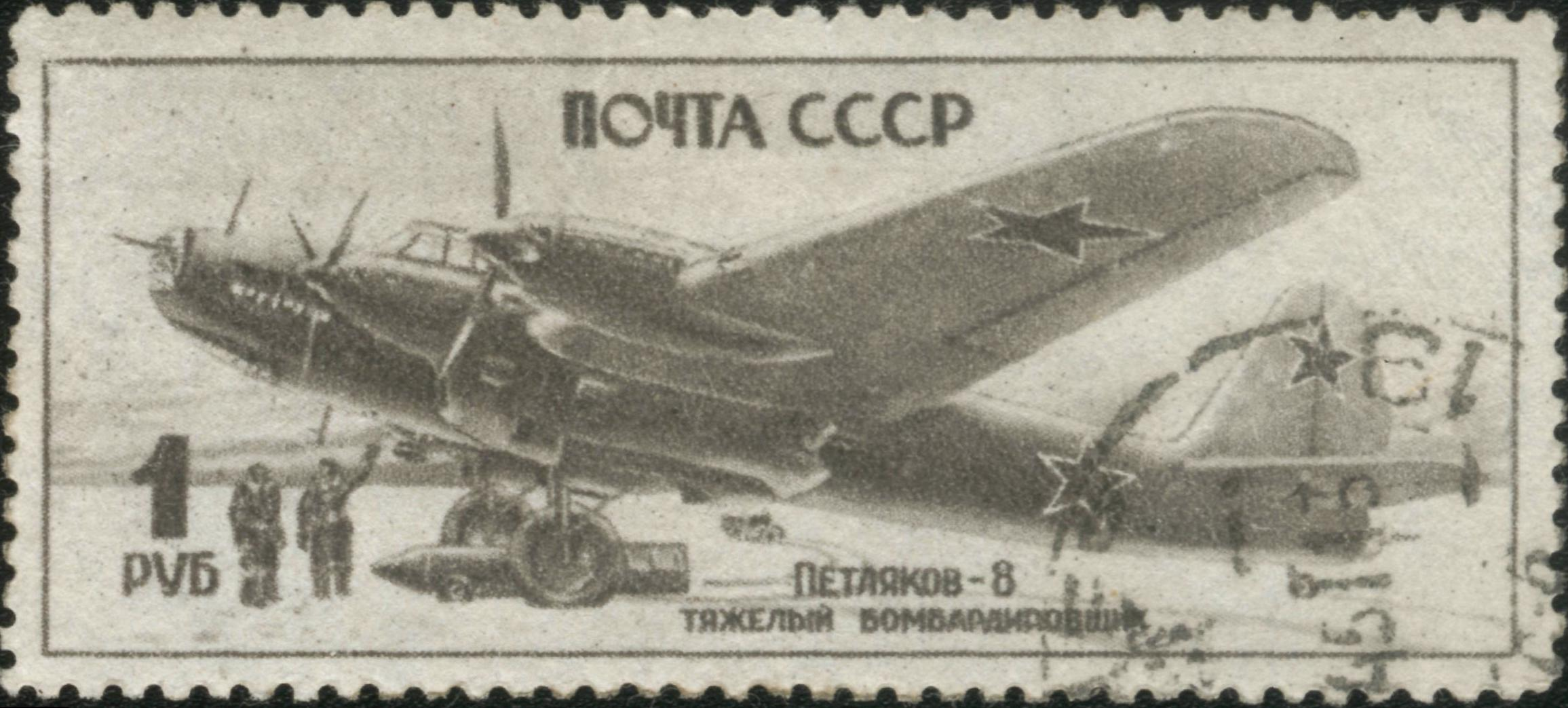 USSR stamp, 1945, Petlyakov Pe-8 heavy bomber aircraft. CPA #989, 1 ruble, used.